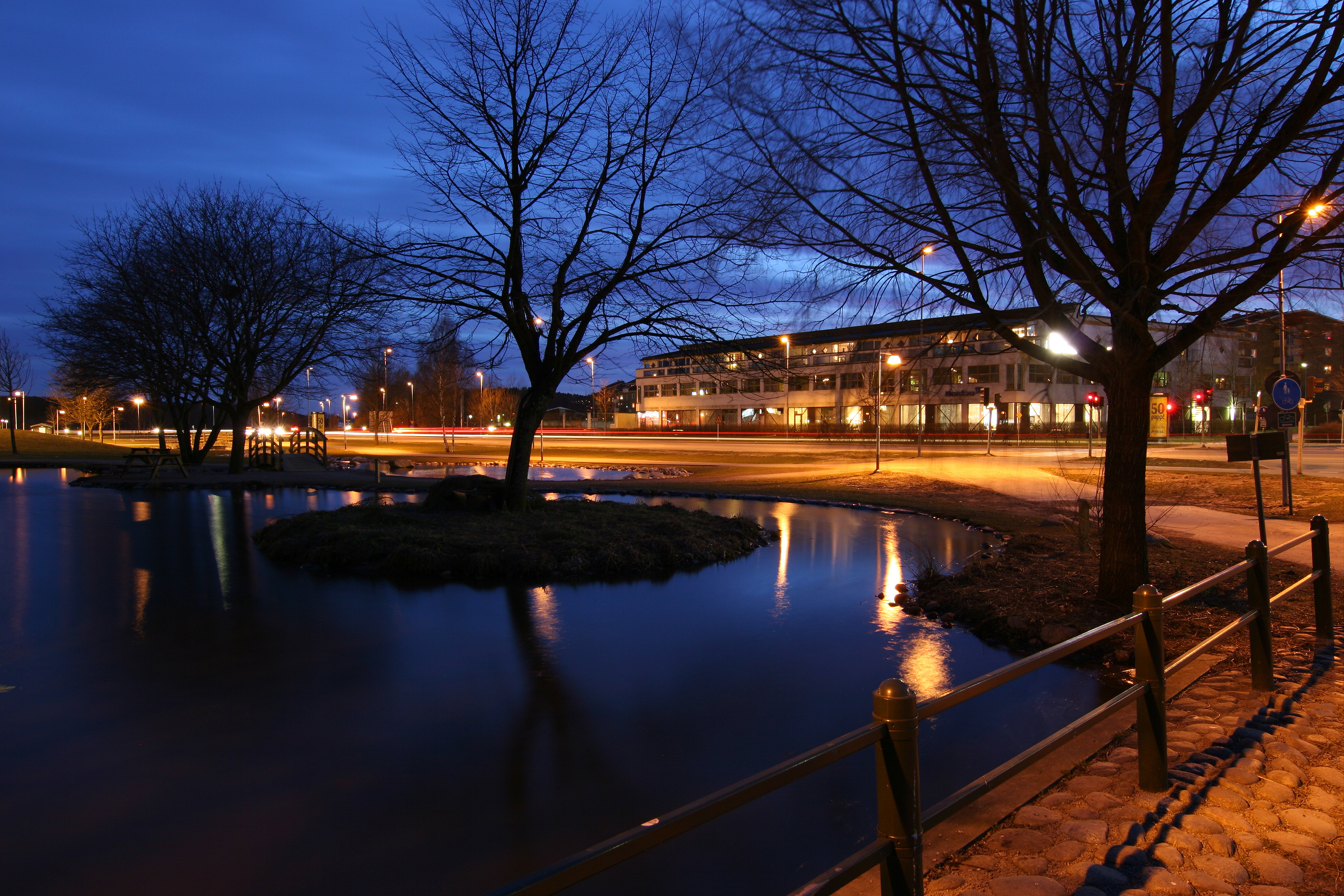 Märsta City in the Municipality of Sigtuna by Night